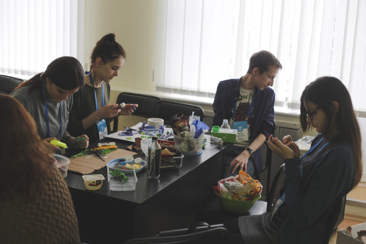 Art-therapy on WPS SPbU-2019